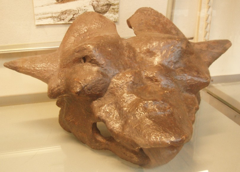 Skull of Ninjemys oweni, a prehistoric turtle from Australia.